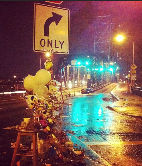 This is a photo of the Kirk Reeves memorial in Portland, OR.